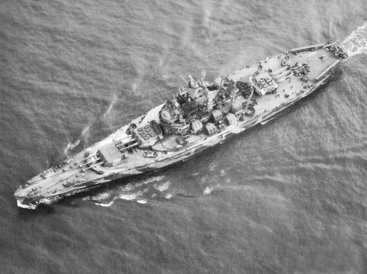 A June 1943 Division of Naval Intelligence, Identification and Characteristics Section print of a 1 December 1942 photo of USS Alabama (BB-60).